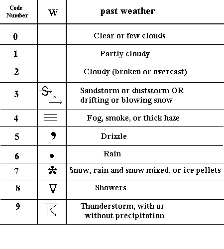 Past weather table